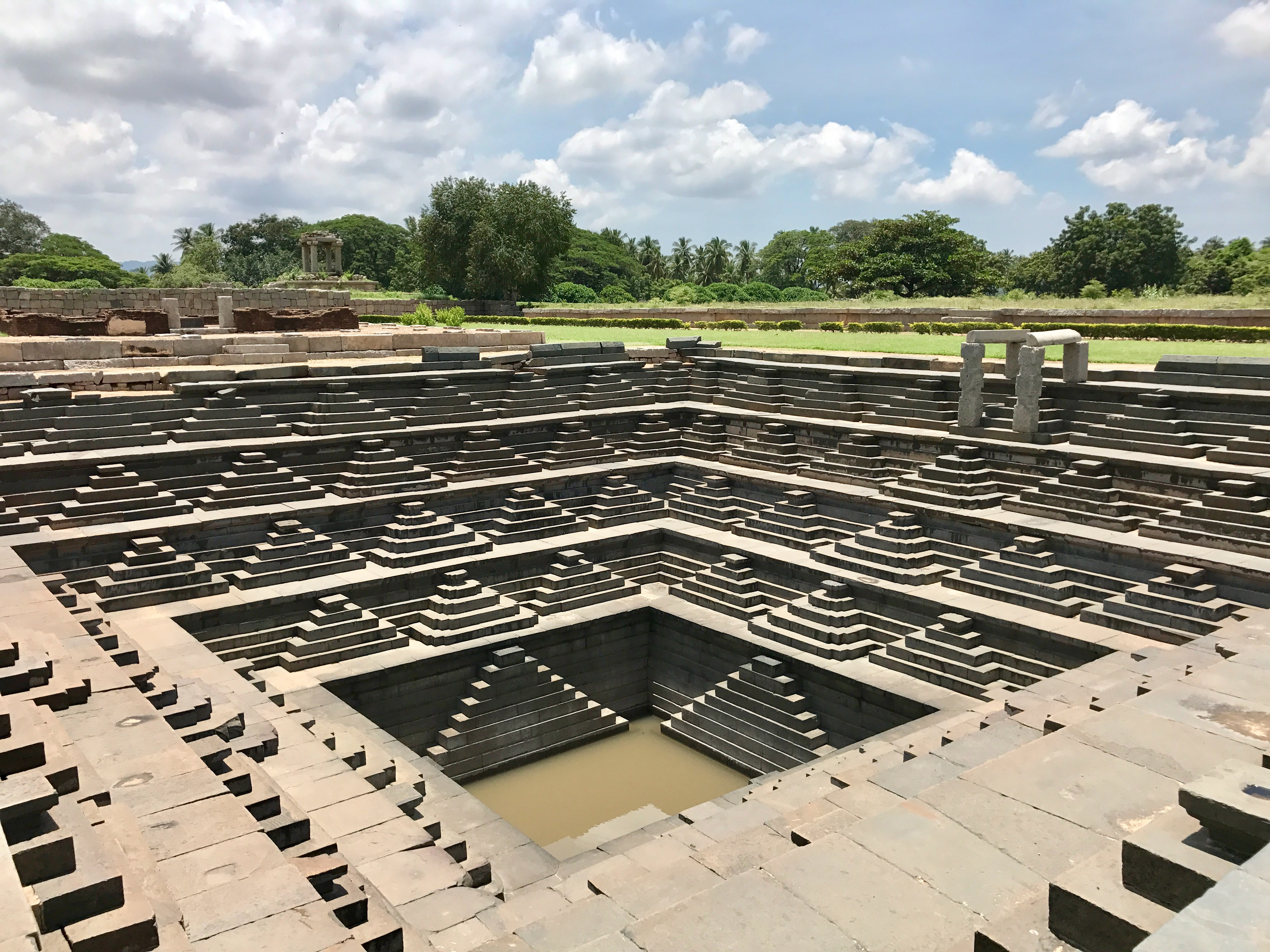 Each major Hindu temple complex in Hampi had a large water tank which were called Pushkarani (Jain temples of Hampi also feature a small water tank, usually in front and also stepped). The Pushkarani were symmetrical, either square or joined double square. In the center of these some water tanks was a shrine with a statue. These were public utilities, while bathing facilities and ghat facilities existed on the banks of the Tungabhadra river with several mandapa and shrines. The water tanks had steps to walk down and fetch water. The most intricate five level highly symmetric gray stone step well was fed by an stone aqua duct near the Maha Ramanavami (Mahanavami) procession and events performance platform, housed within the royal and court residence campus. Hampi ruins and monuments date to pre-17th century period of South Indian history, particularly those related to the Hindu Vijayanagara Empire era (14th-16th centuries). The site consists of numerous ruins and temples over a large area, the most visited and studied are those located near the Tungabhadra river. The town derives its name from the Pampa Devi Hindu mythology in Sanskrit, with Pampa morphing into Hampa in Kannada, then Hampi. The city served as capital of the Vijayanagara rulers, was pillaged, ruined and abandoned after Muslim armies of a Sultanate coalition attacked and defeated it. In the modern era, it serves as an archaeological site and is a UNESCO world heritage site.